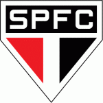 Logo: São Paulo Futebol Clube